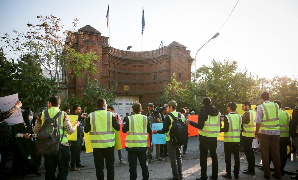 French Embassy at Tehran